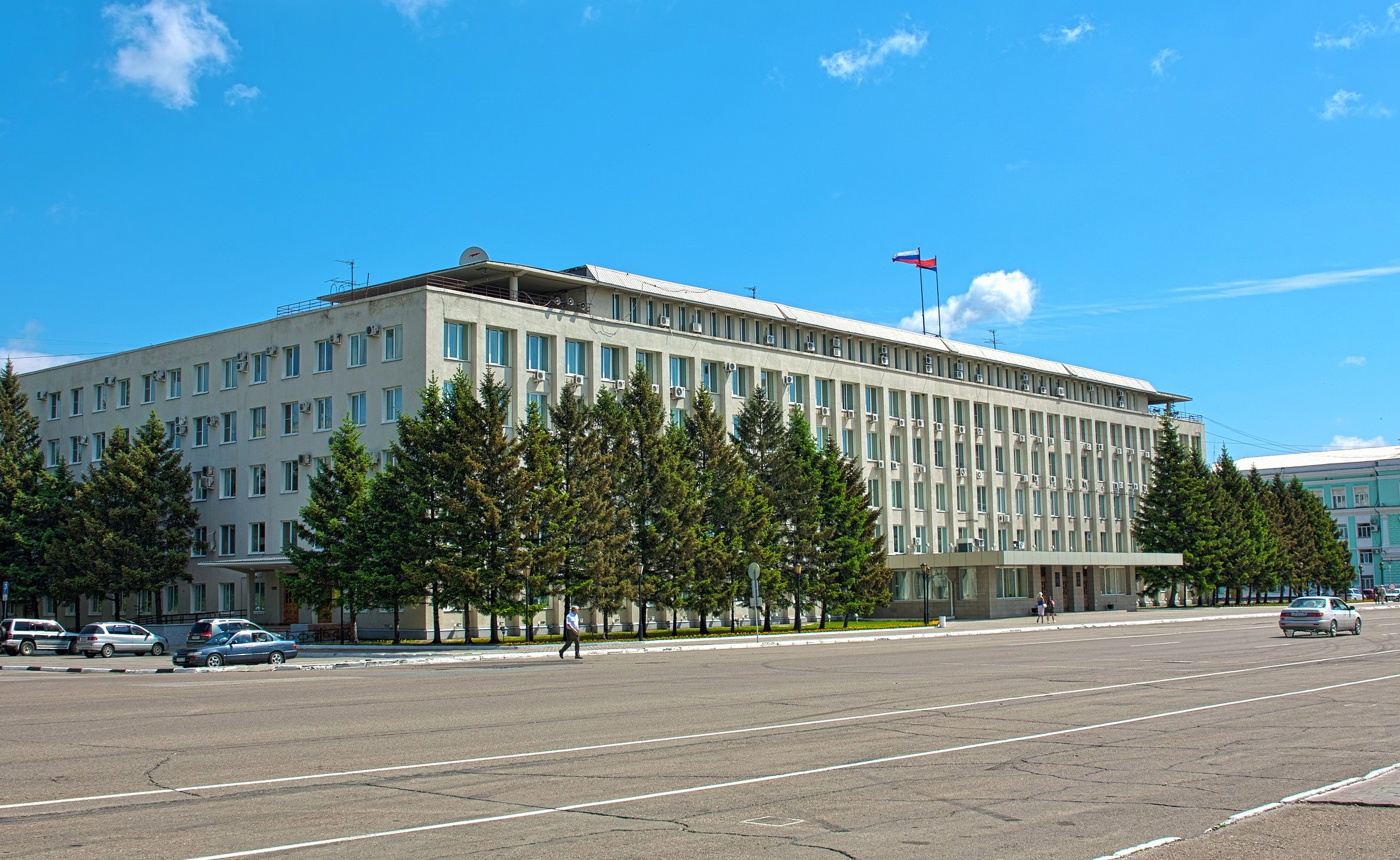 seat of the government of amur oblast